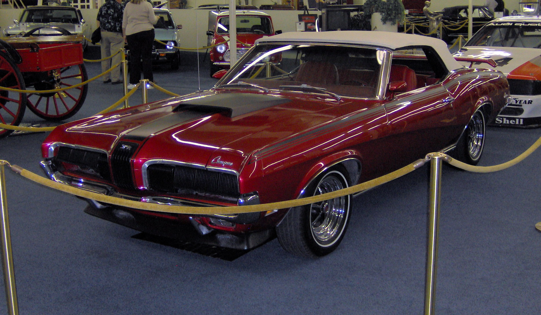 1970 Mercury Cougar XR7 Convertible Eliminator (recreation)